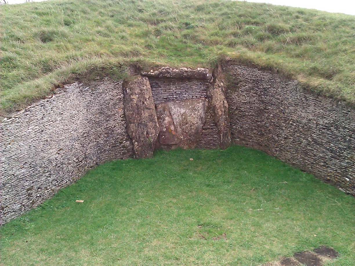 Belas Knap is a neolithic chambered long barrow, situated on Cleeve Hill, near Cheltenham and Winchcombe, in Gloucestershire, England. This image shows the false front entrance stonework